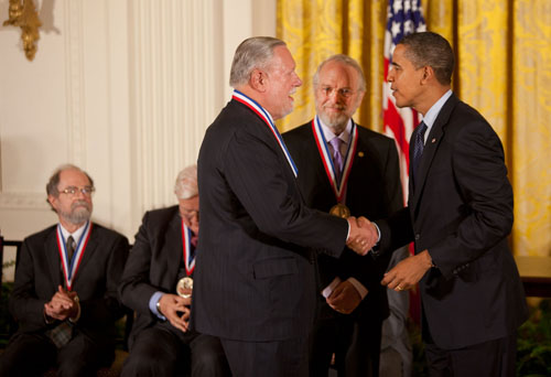 President Barack Obama congratulates Charles Geschke, left, and John Warnock, center, of Adobe Systems after presenting them with the National Medal of Technology and Innovation during an awards ceremony in the East Room of the White House, October 7, 2009.